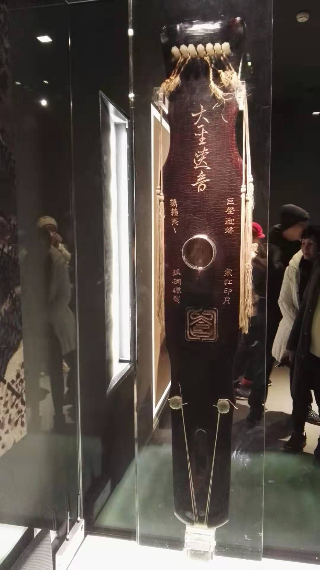 the back of Dasheng Yiyin